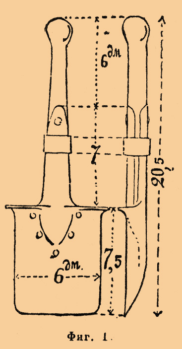 Illustration from Brockhaus and Efron Encyclopedic Dictionary (1890—1907)